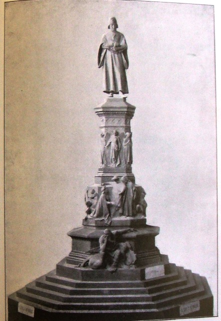 Dante's first draft